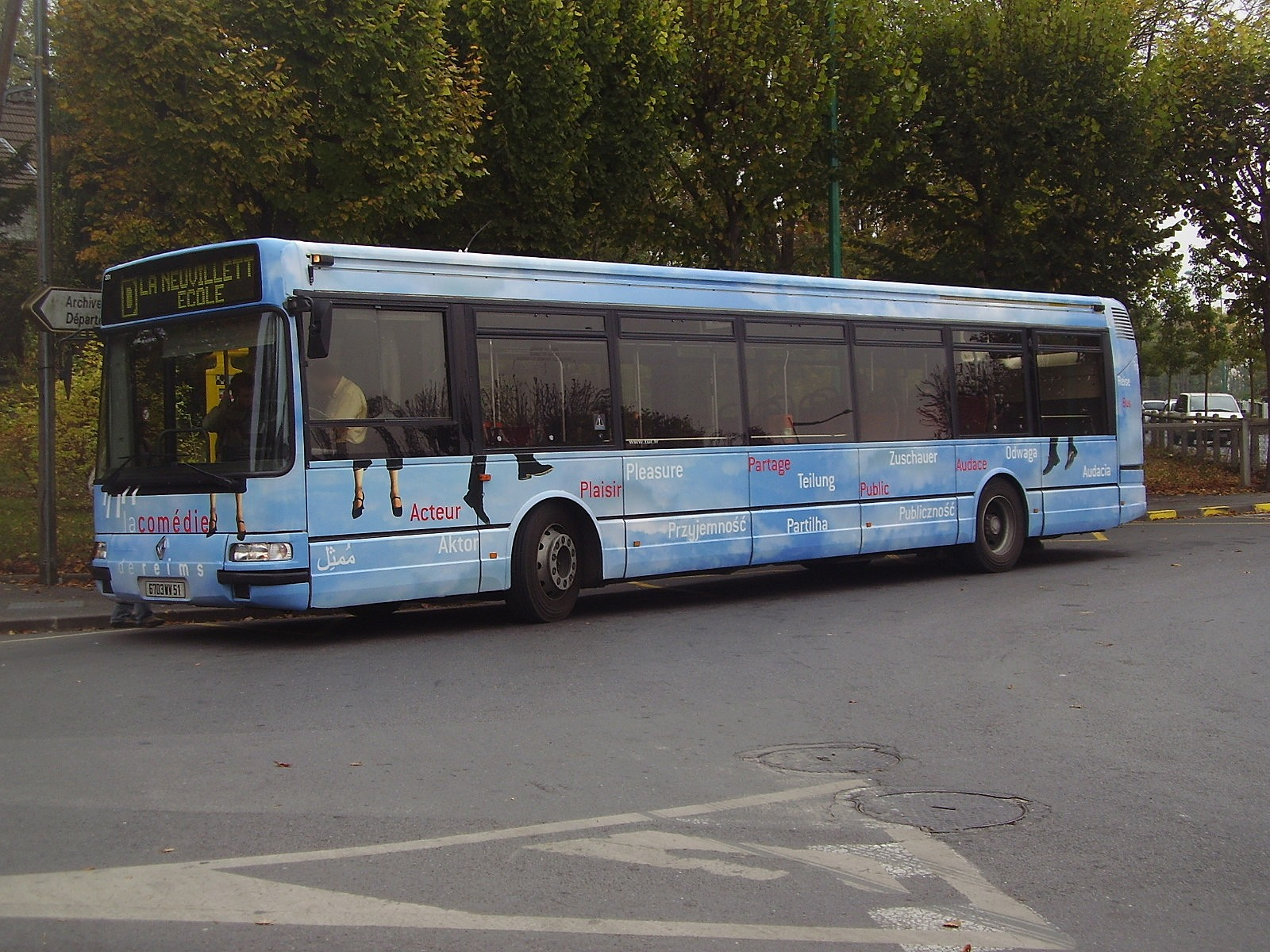 Agora S #201 of the TUR network.